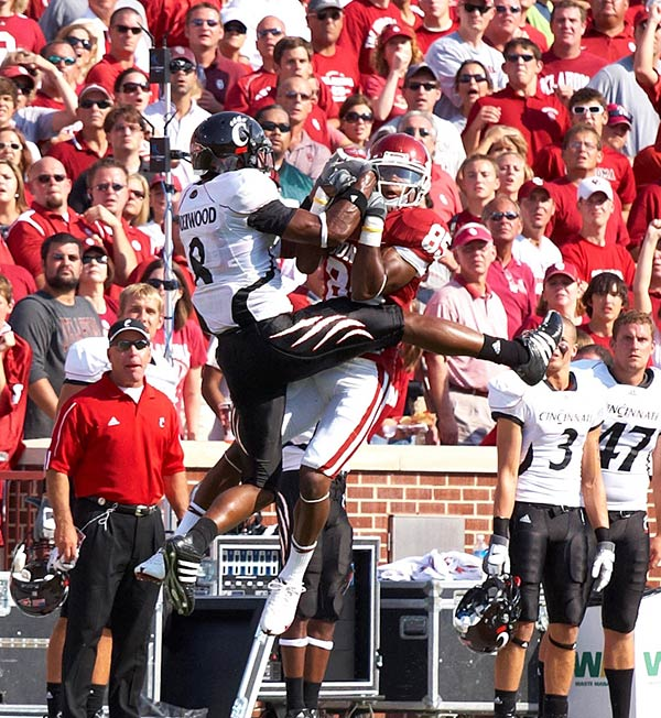 Ryan Broyles of the Oklahoma Sooners football team and Brandon Underwood of the Cincinnati Bearcats football team both up to catch a ball.